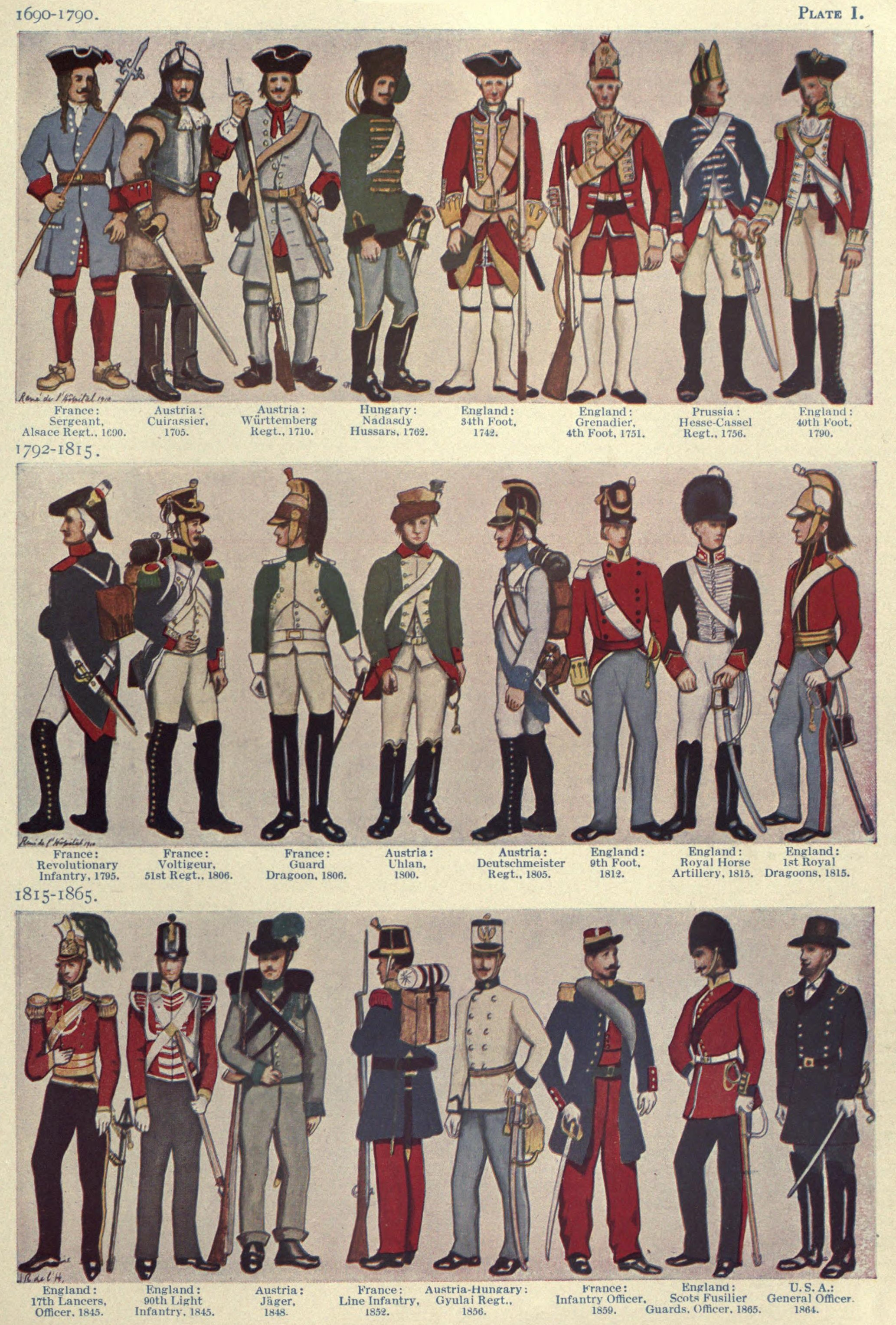 Images of military uniforms from 1670 to 1865